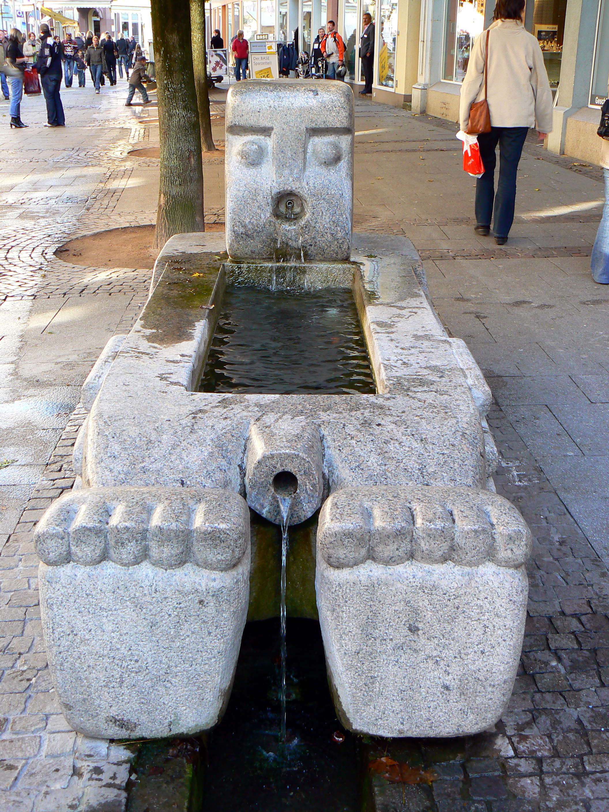 Fountain in Offenburg, Germany